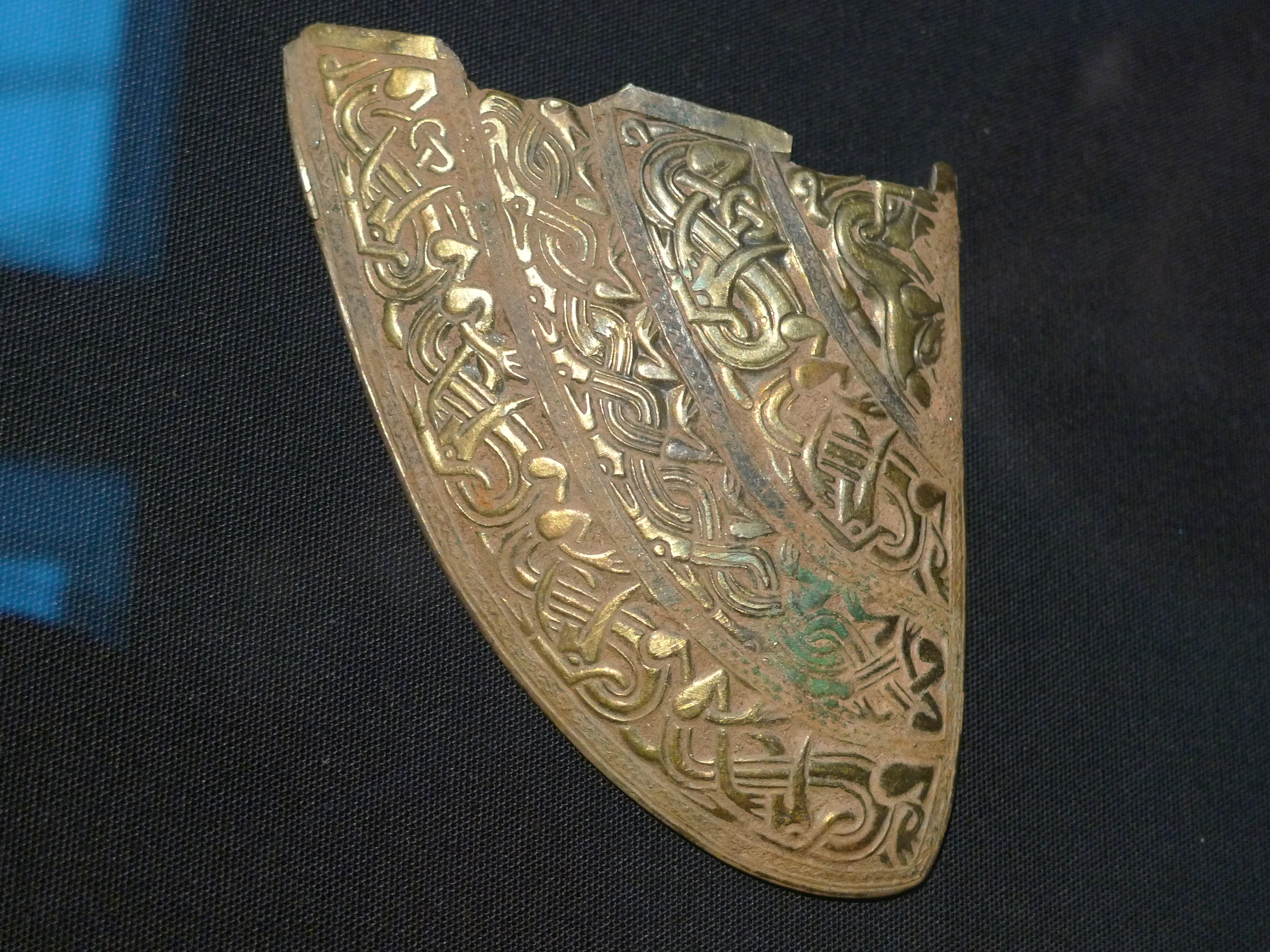 Fragments from a helmet (Staffordshire Hoard)